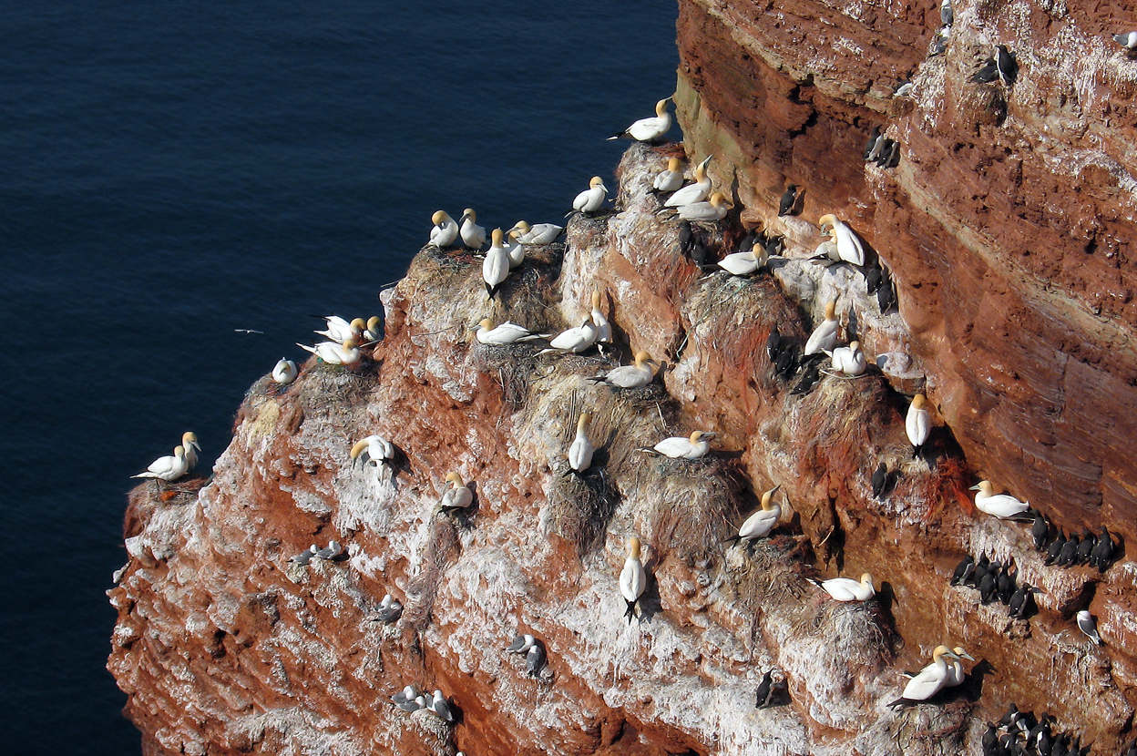 Northern Gannet